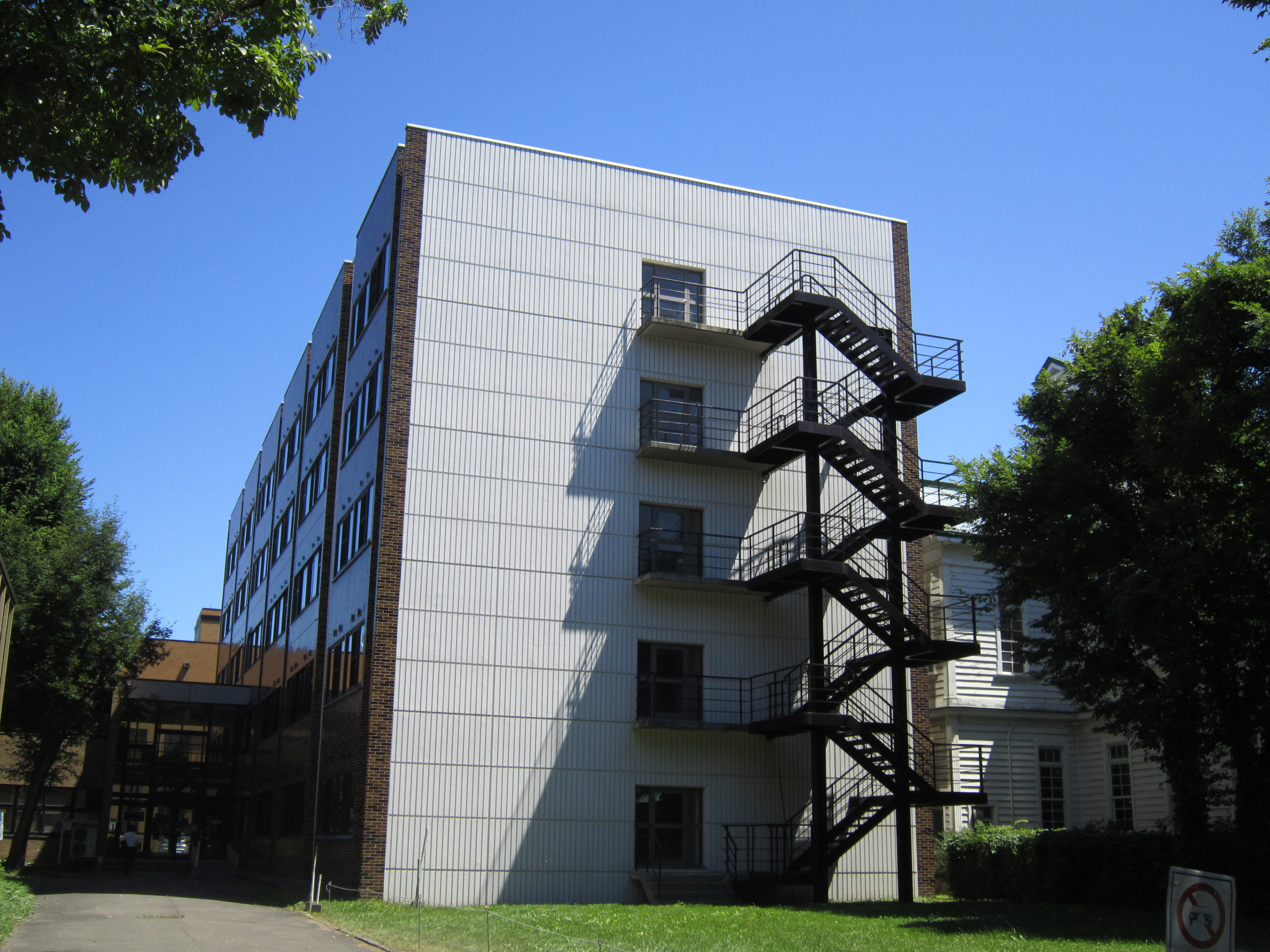 Hokkaido University School of Economics and Buisiness